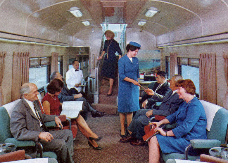 Photo of the lower level of the Vista Dome observation car.